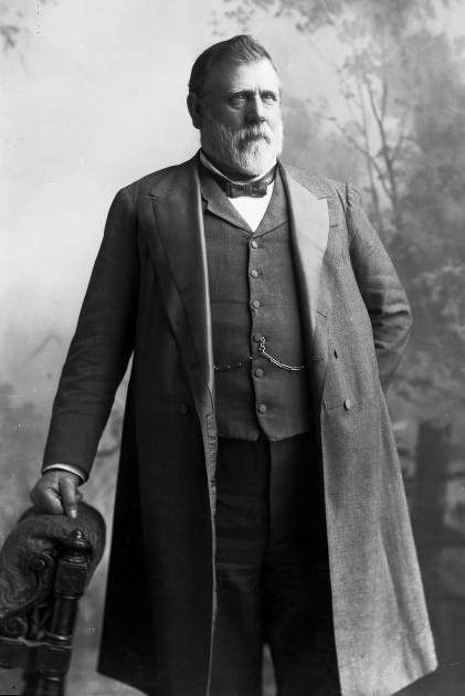 Richard John Seddon, Prime Minister of New Zealand 1892-1906.